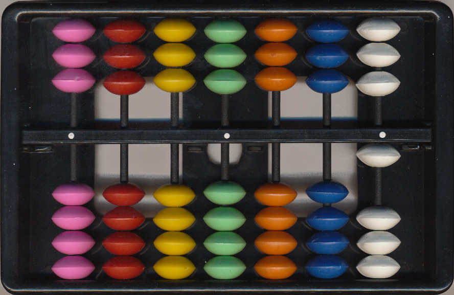 Inupiaq abacus is one of the most important aspects of using the Kaktovik numerals in the classroom. Under "Abacus" you have a picture of the Chinese dual-base abacus used for base-10 and base-16 calculations. The Inupiaq abacus is made for rapid calculation with the base-20.